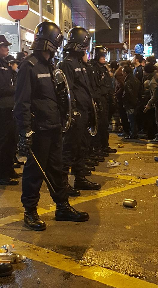 2016-2-9 MK protests Portland St - Shan Tung St police cordon